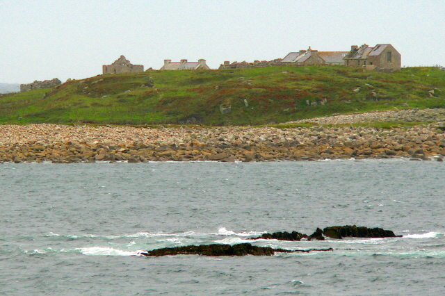 Inishsirrer Island - View across Gweedore Bay Shown is SE end of abandoned Inishsirrer island with some derelict buildings. This photo was taken from a small beach in the Glassagh area just west of Teac Jack's Hotel.